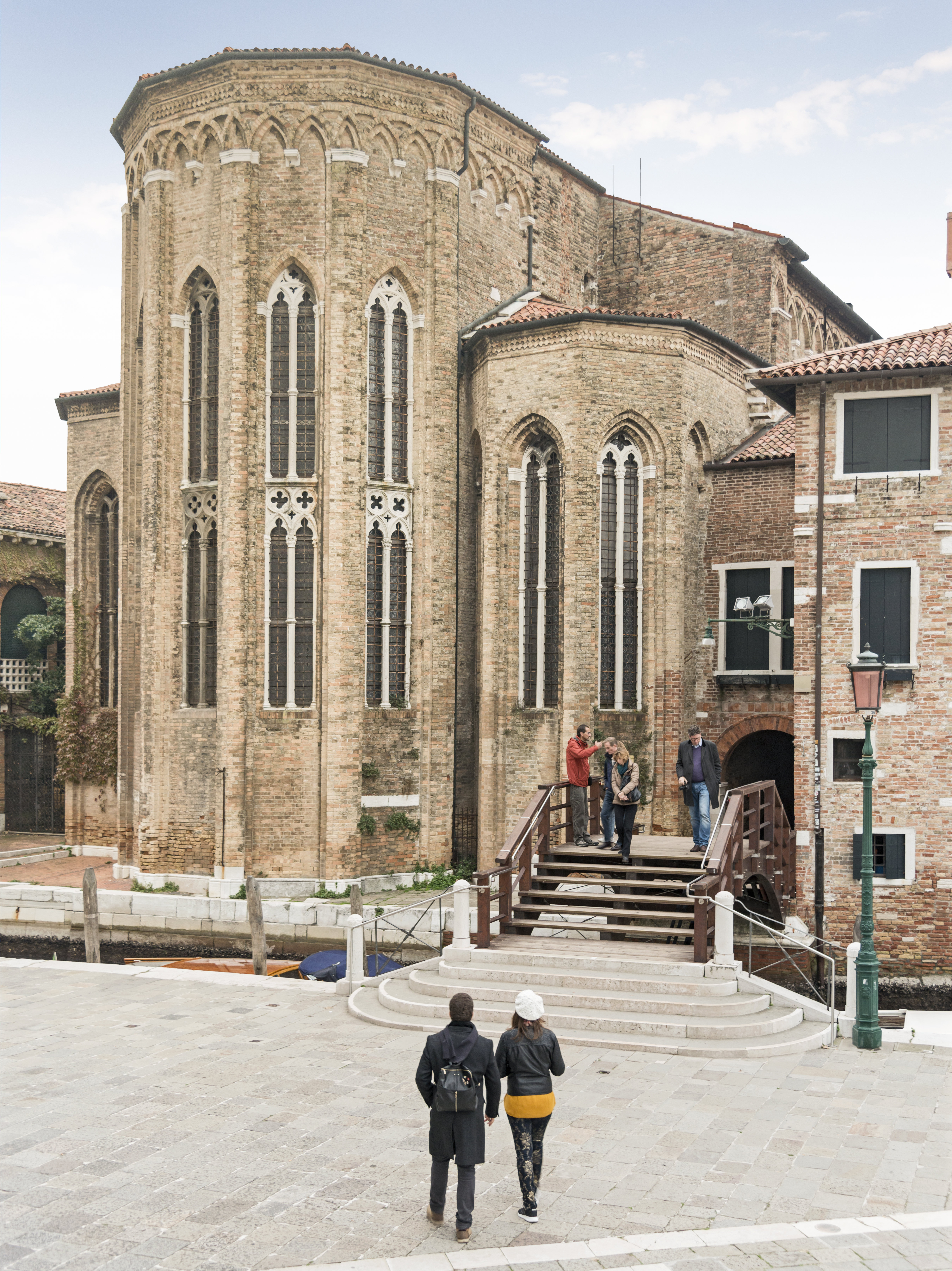 Church San Gregorio, Venice. Apse on Campo della Salute.